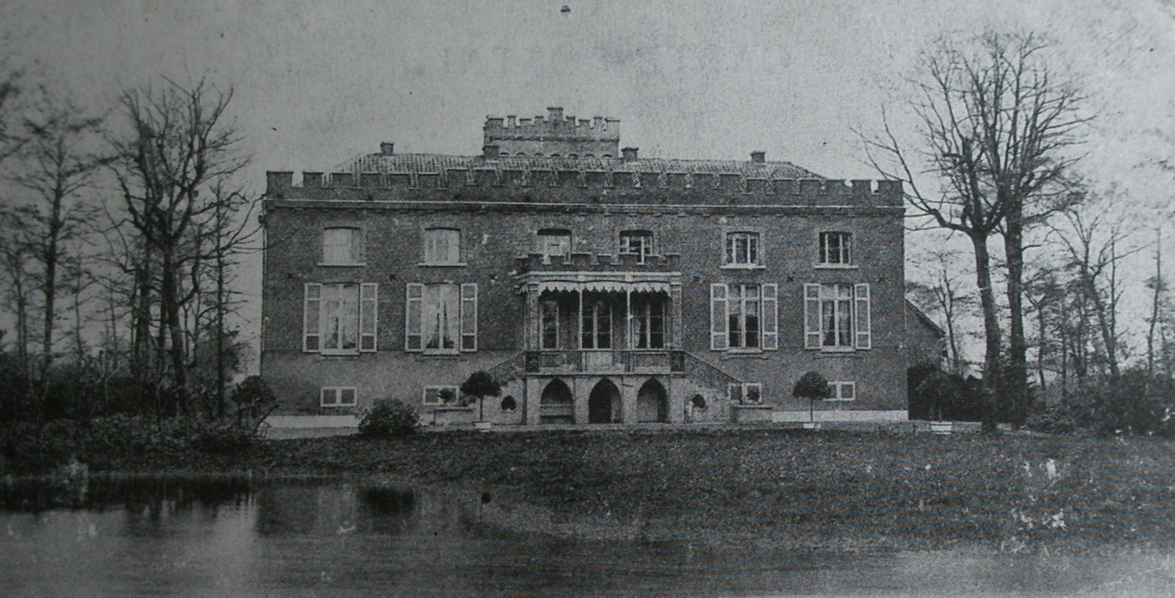 Picture of castle 'Gaverkasteel' at Deerlijk, built by Vercruysse de Solart, picture taken in 1900.